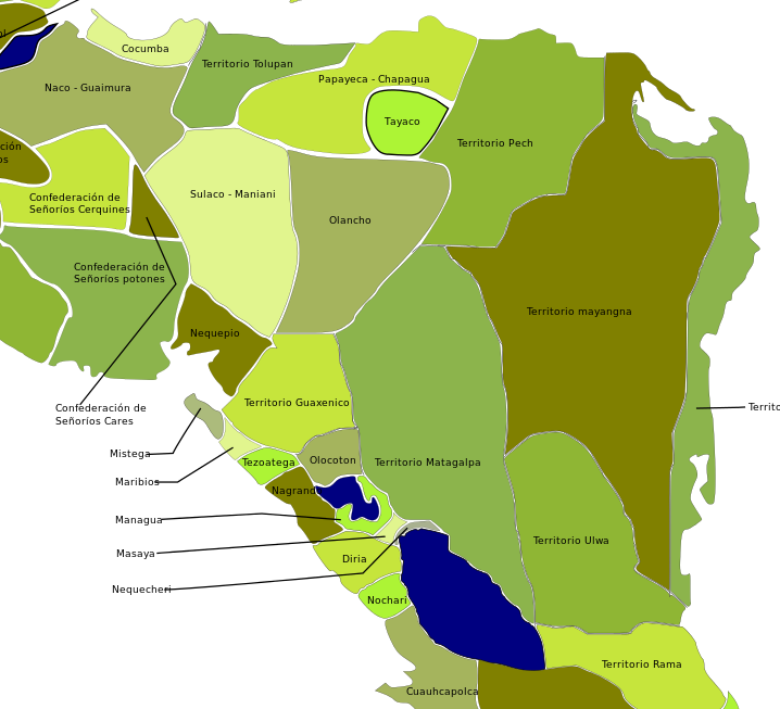 Zoom in of: Centroamerica prehispanica siglo XVI.svg